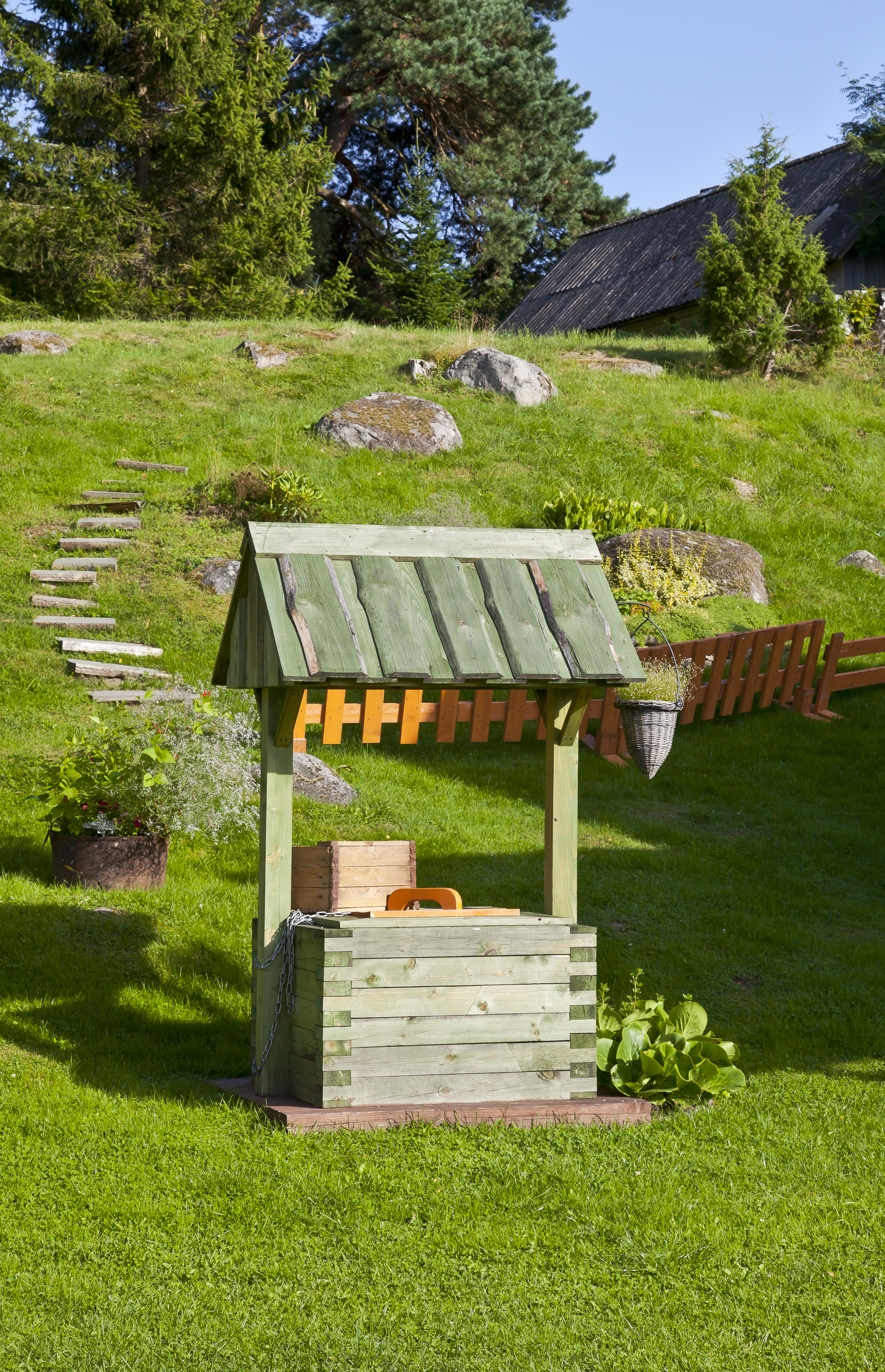 Altja, Lahemaa National Park, Estonia